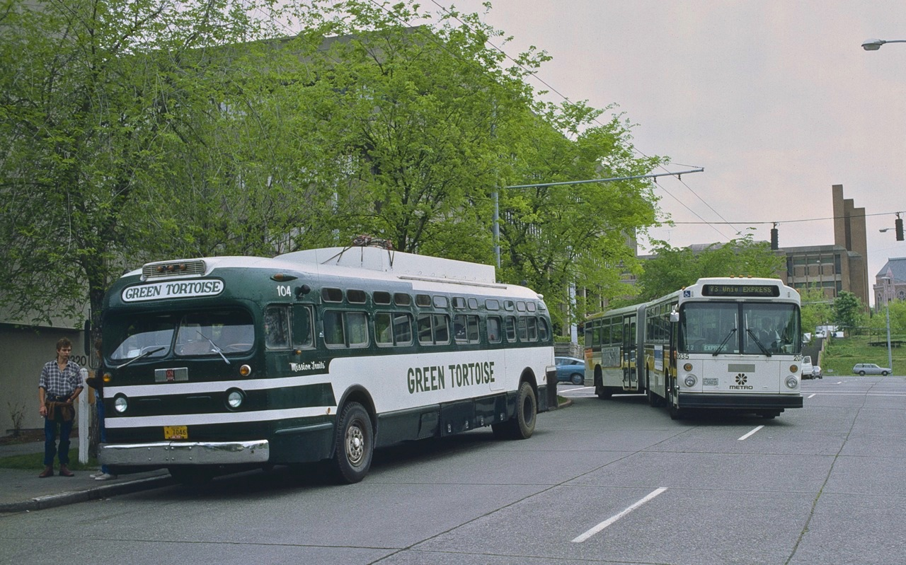 A Green Tortoise bus loading in Seattle in 1984, on NE Campus Parkway, in the University District, while Metro Transit bus 2035 (an MAN articulated bus) turns onto Campus Parkway from University Way, bound for downtown on route 73. Green Tortoise bus 104 is a 1954 General Motors TDM-4801, one of several models in a range collectively (and informally) called "Old Look" buses, built in the 1950s and late 1940s. It was previously owned by Pacific Greyhound Lines, and Green Tortoise acquired it used.